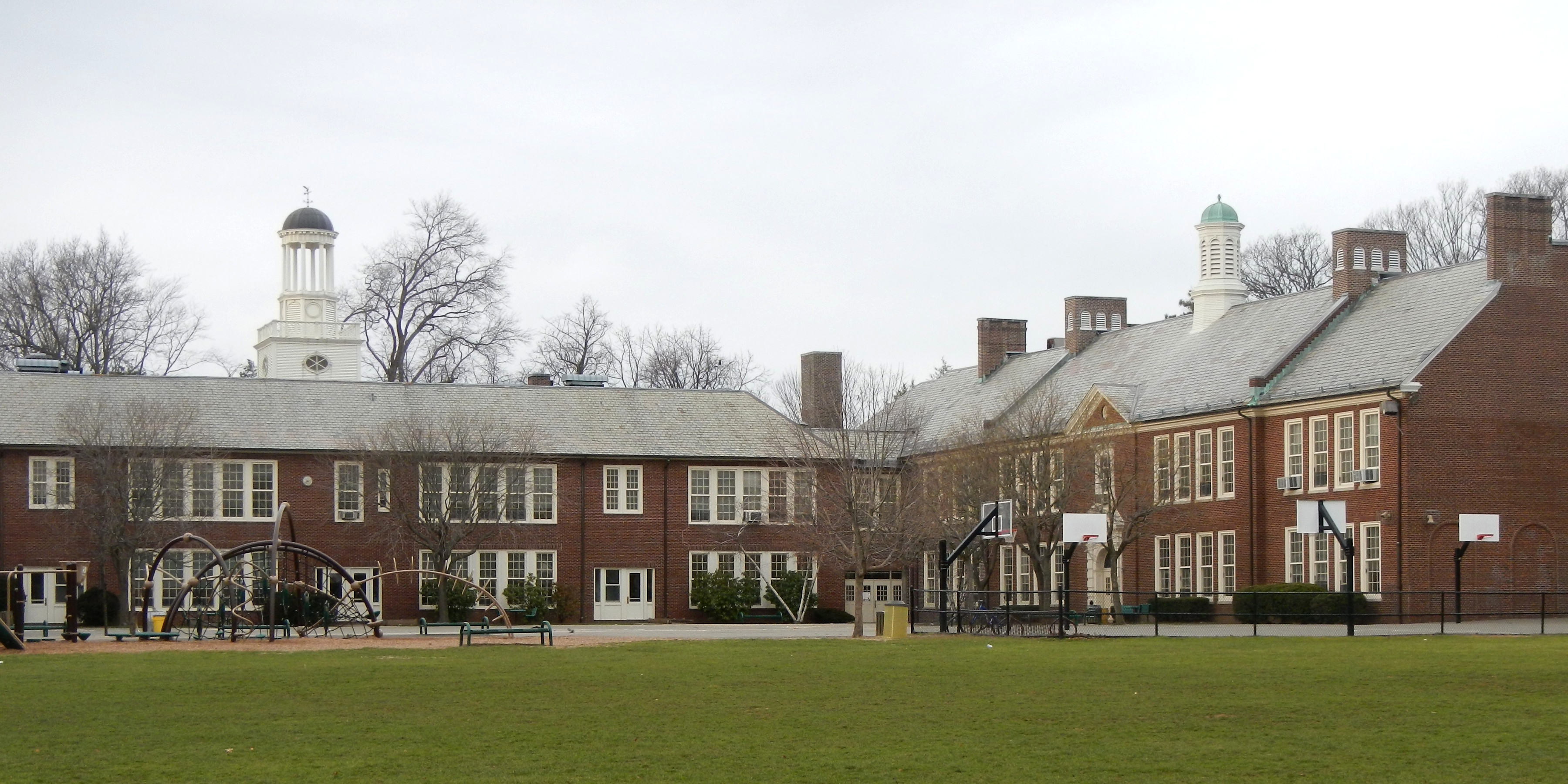 Looking northwest on a cloudy afternoon at Edgewood School.